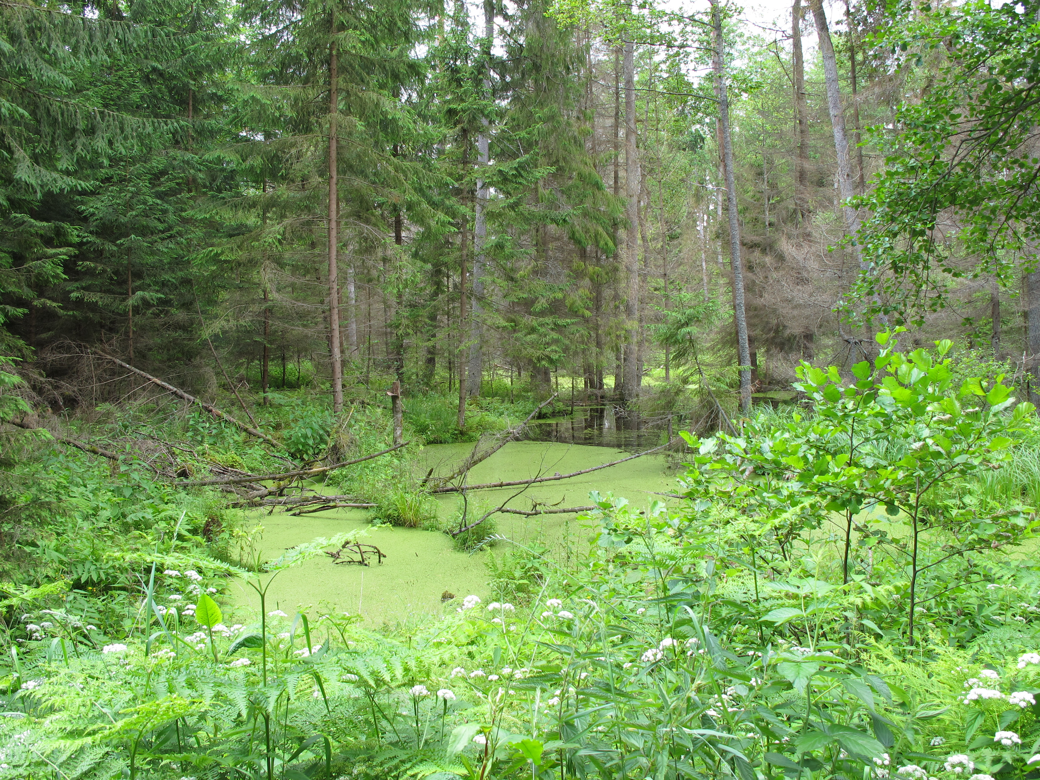 Ponds in the Knyszyn Forest at „Skrobocinka” by road to the Lipowy Most village, gmina Szudziałowo, podlaskie, Poland